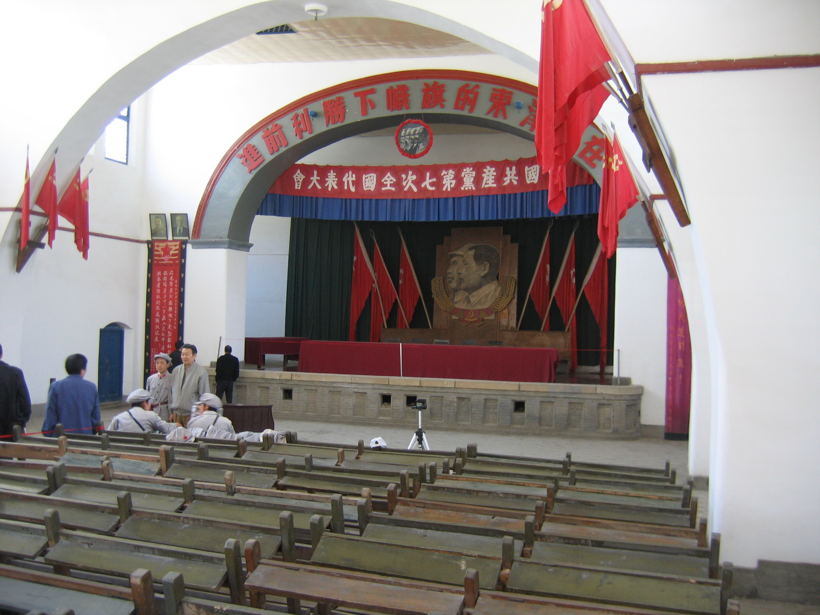 Yanan Shaanxi maoist city 陕西省延安市 Meeting hall